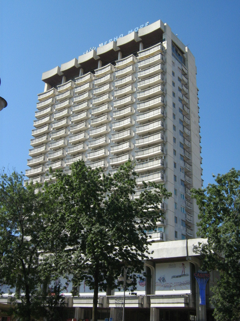 Hotel "Black Sea", Varna - one of the tallest buildings on the Balkans.